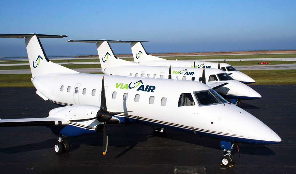 ViaAir planes featuring three of the four original aircraft.